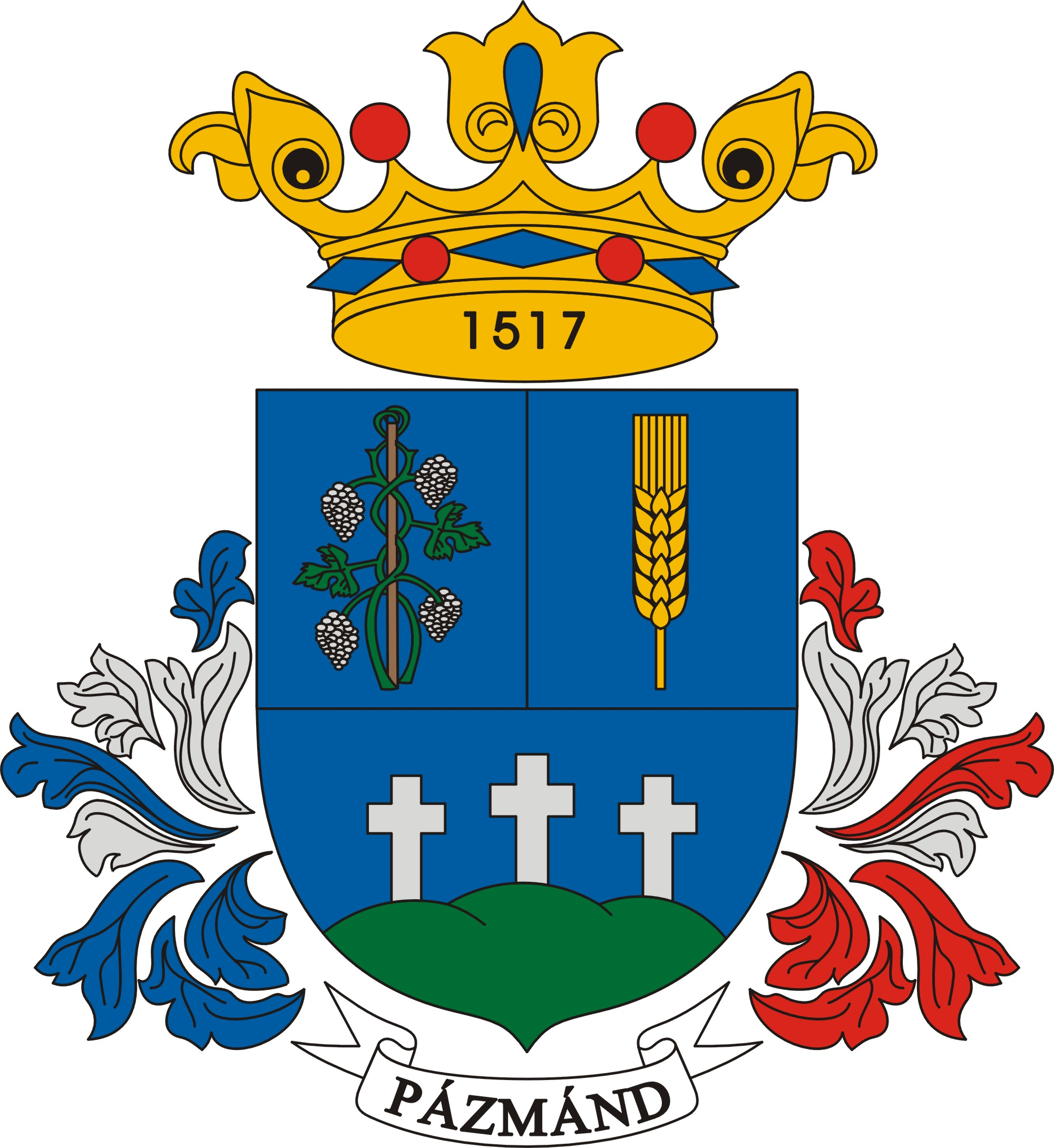 Coat of arms of Pázmánd, Hungary